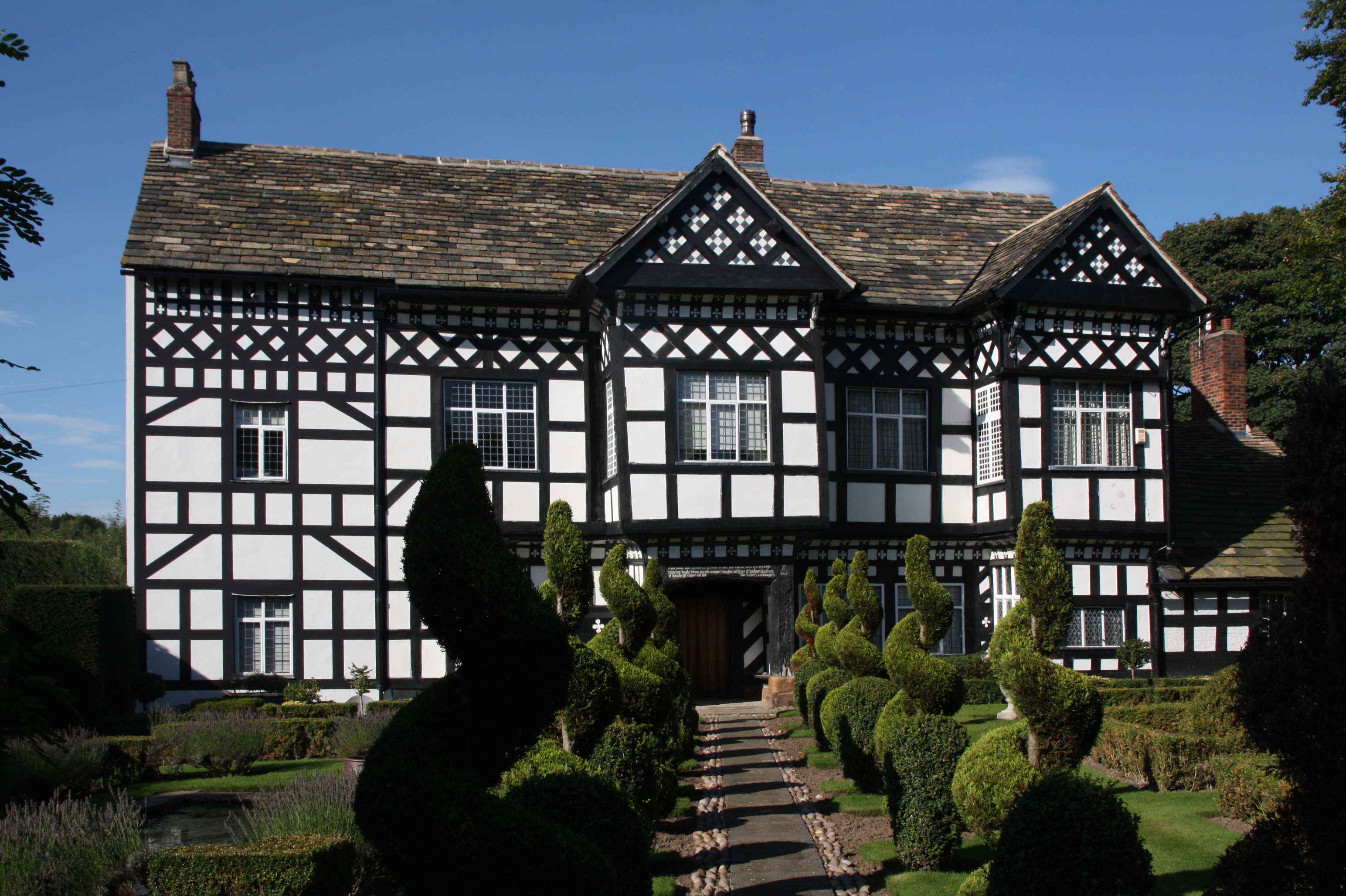 Handforth Hall is a grade II* listed building in Handforth, Cheshire. A view of the front façade.